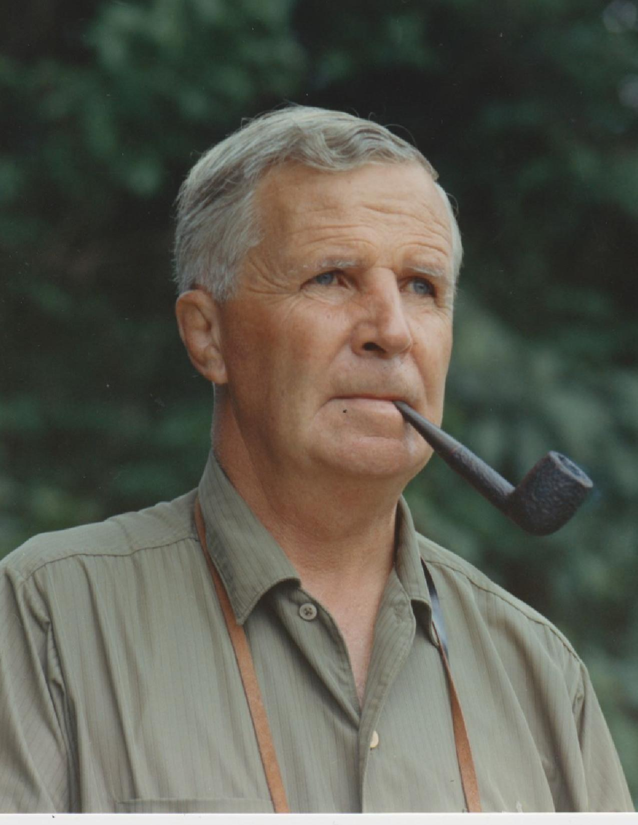 Picture of John Simpson Owen